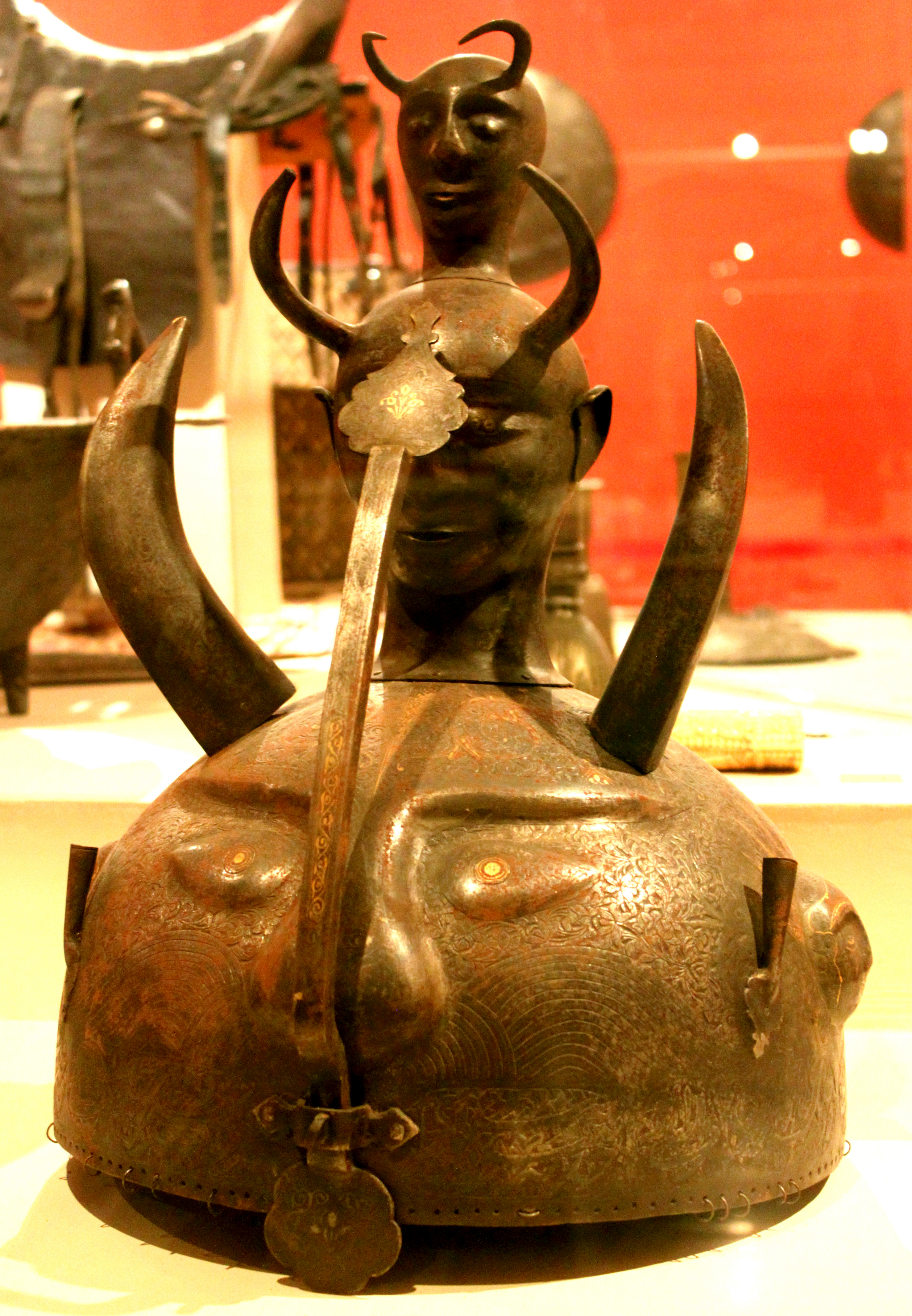 Medieval azerbaijani helmet (Sajids)